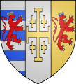 coat-of-arms of Lusignan of Cyprus, Jerusalem and Lesser Armenia